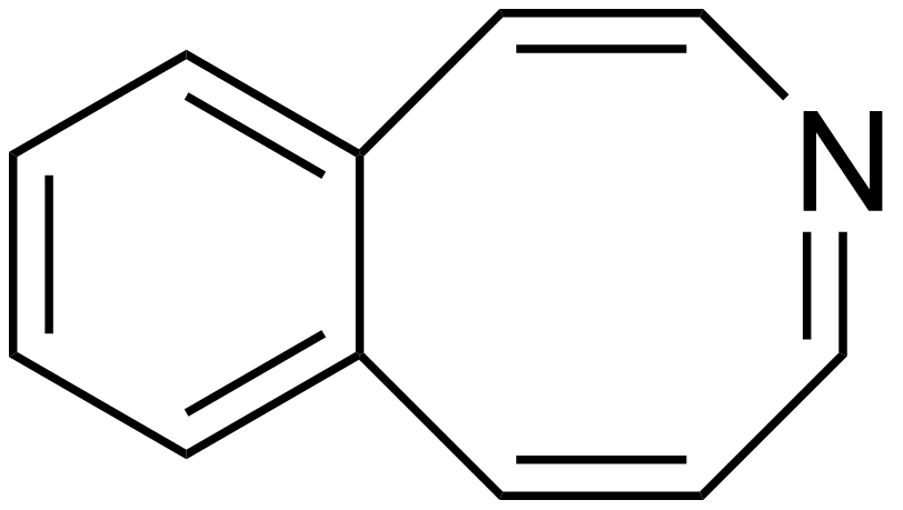 Chemical structure of 3-benzazocine (benzoazocine)